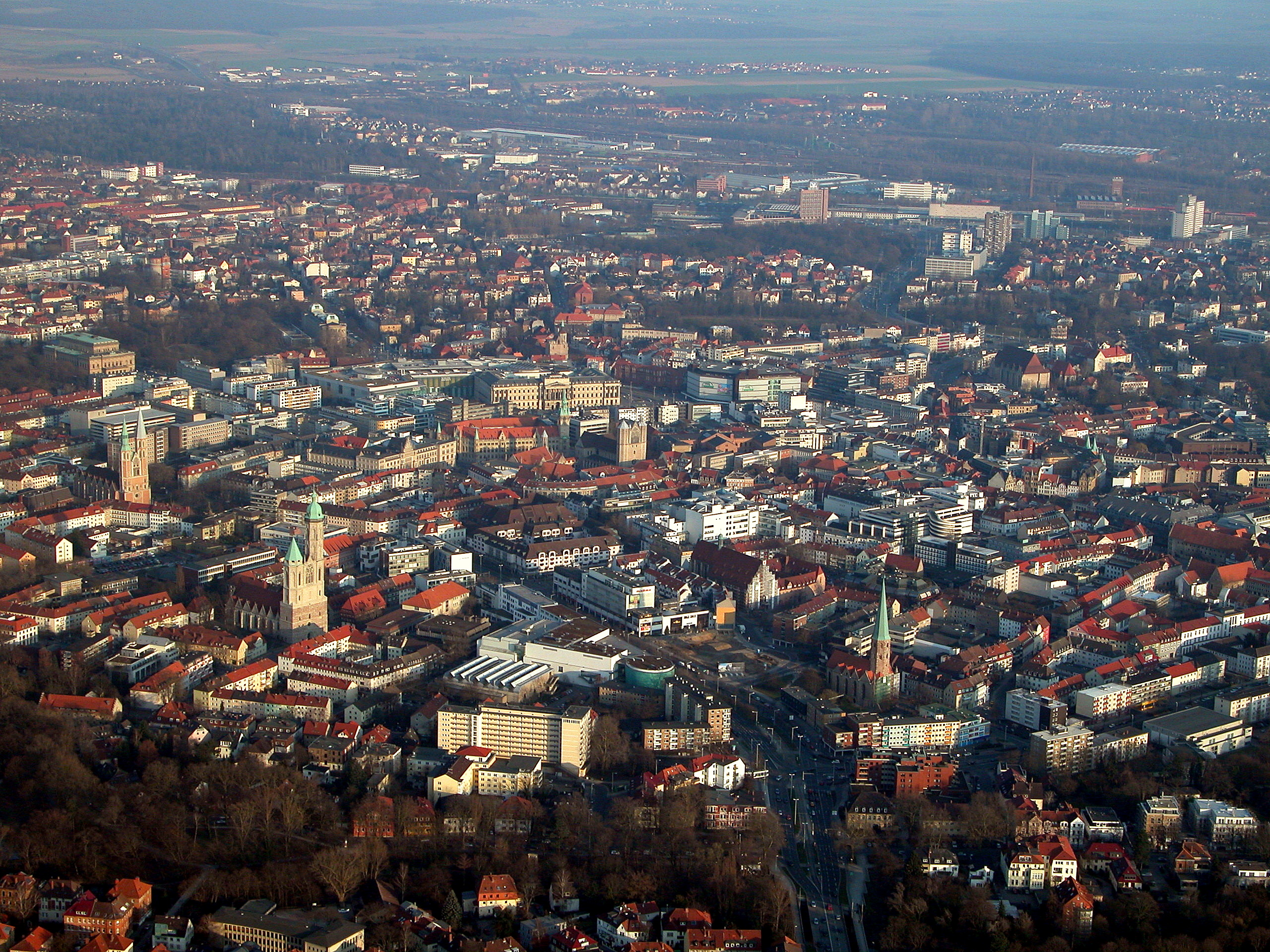 Downtown Braunschweig. The view includes Petritorbrücke bridge with Radeklint intersection (center below), St.Peters (to the right of the intersection), Evangelican Church (St. Ulrici-Brüdern), St. Andrews' Church, St. Catherine's Church, Brunswick Palace, Brunswick Cathedral, Brunswick Rathaus Town Hall, St. Magni's Church, Brunswick City Theater (far left), Anton Ulrich Museum, Aegidienkirche, and Braunschweig Central Station (right in the background).